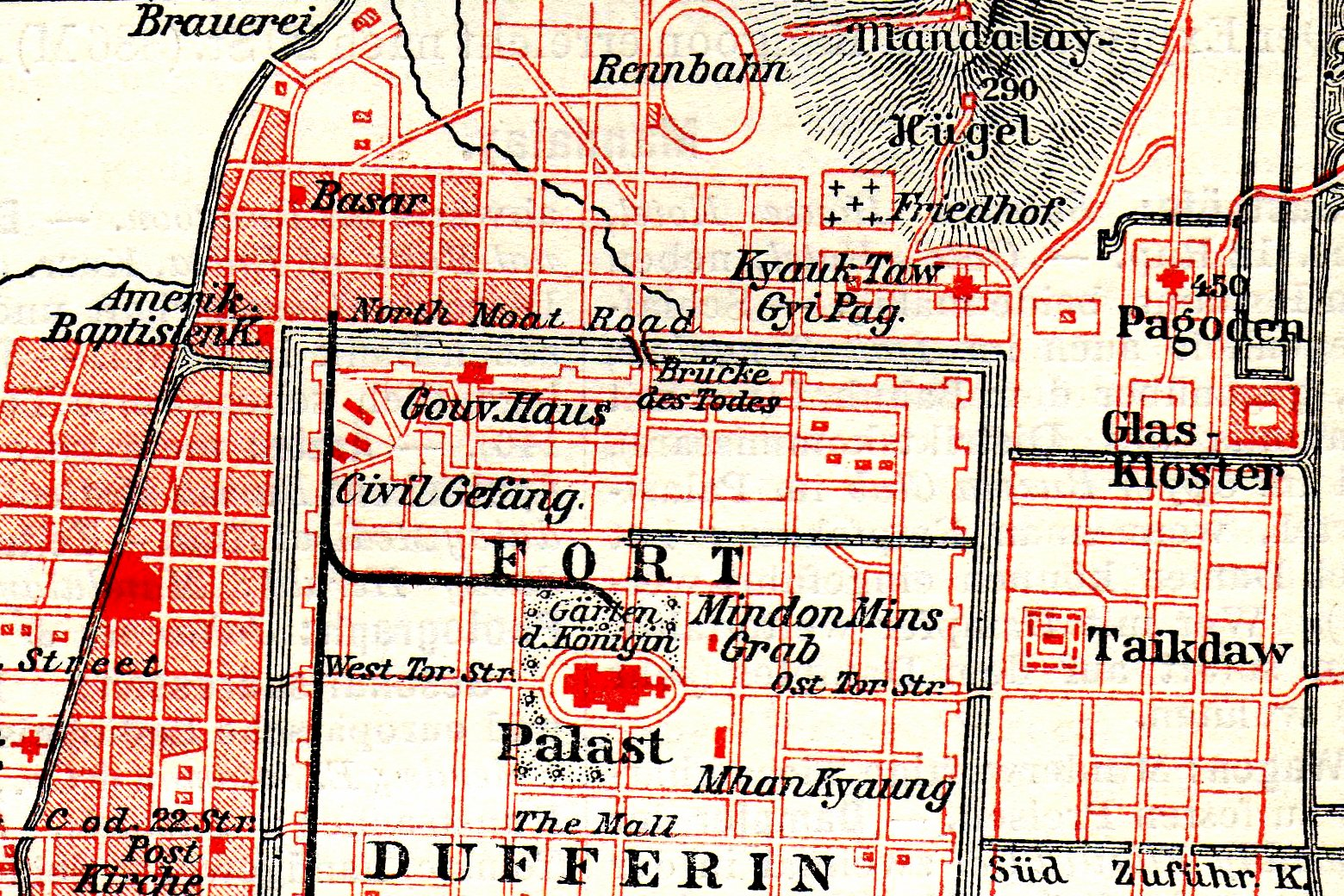 Map extract showing Mandalay Hill in relation to the Palace